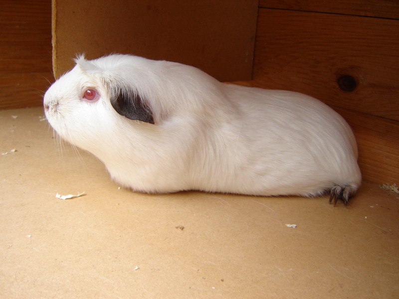 Albino guinea pig waiting for her little home to be cleaned.